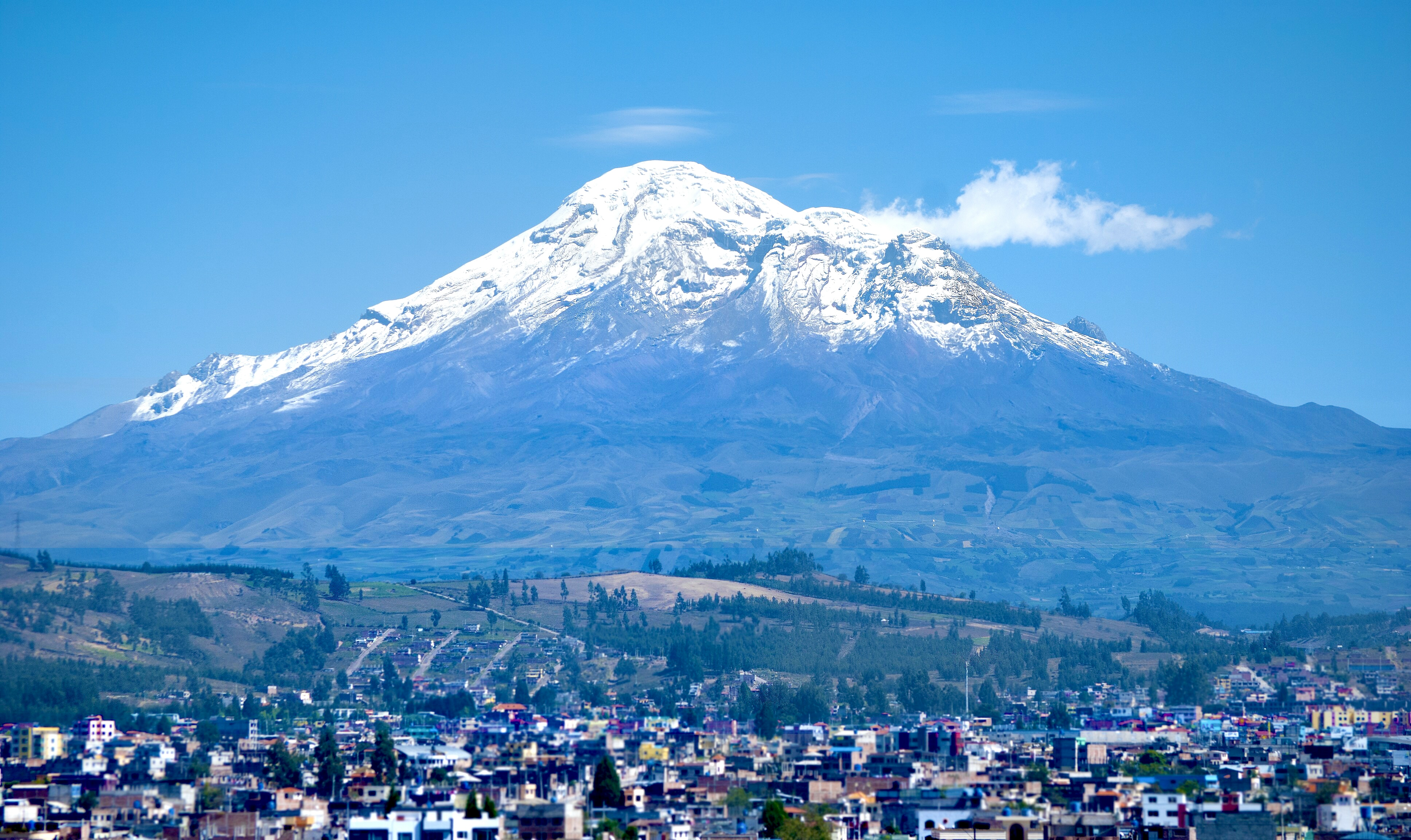 Chimborazo in Riobamba, Ecuador. Chimborazo (Spanish pronunciation: [tʃimboˈɾaso]) is a currently inactive stratovolcano in the Cordillera Occidental range of the Andes. Its last known eruption is believed to have occurred around 550 A.D